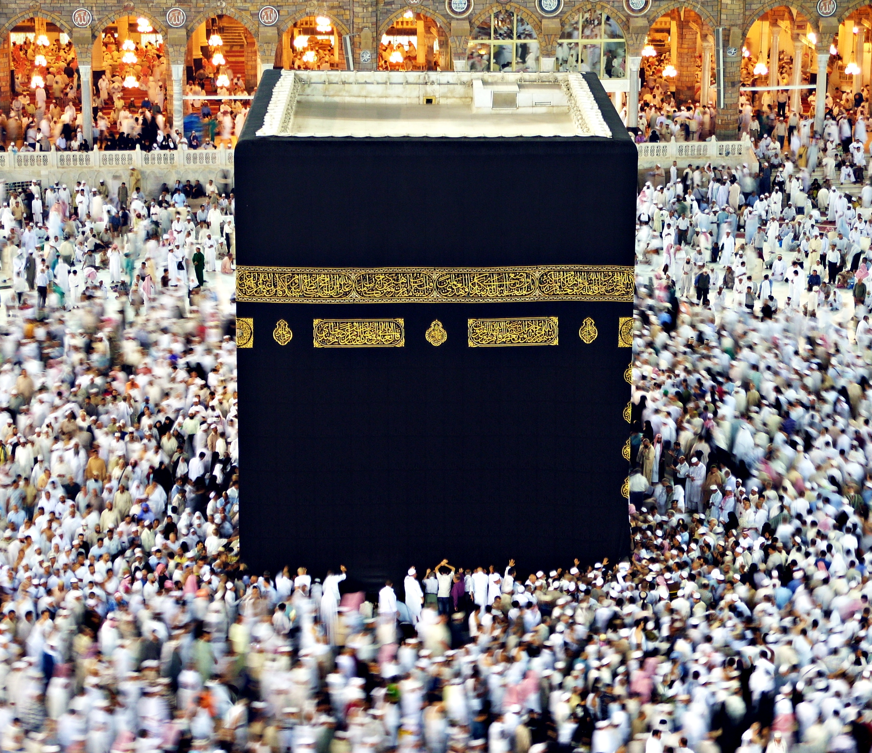 Kaaba, Mecca, Saudi Arabia. Holiest site in Islam.